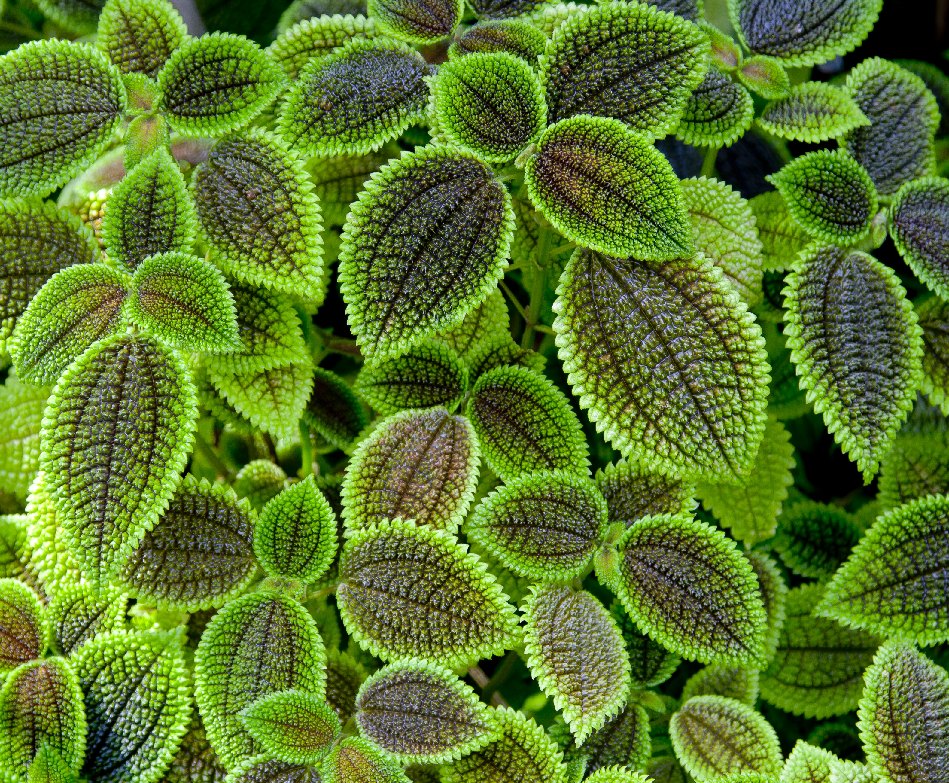 Pilea involucrata leafs, Botanical Garden of Munich, Germany.